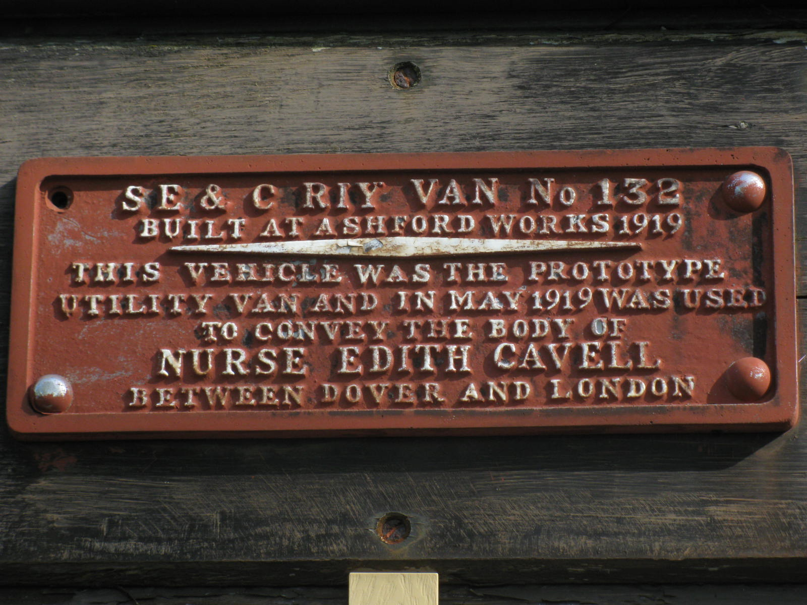 Close-up of the plaque carried on SECR GUV No. 132 commemorating the fact that the body of Edith Cavell was carried on this vehicle.